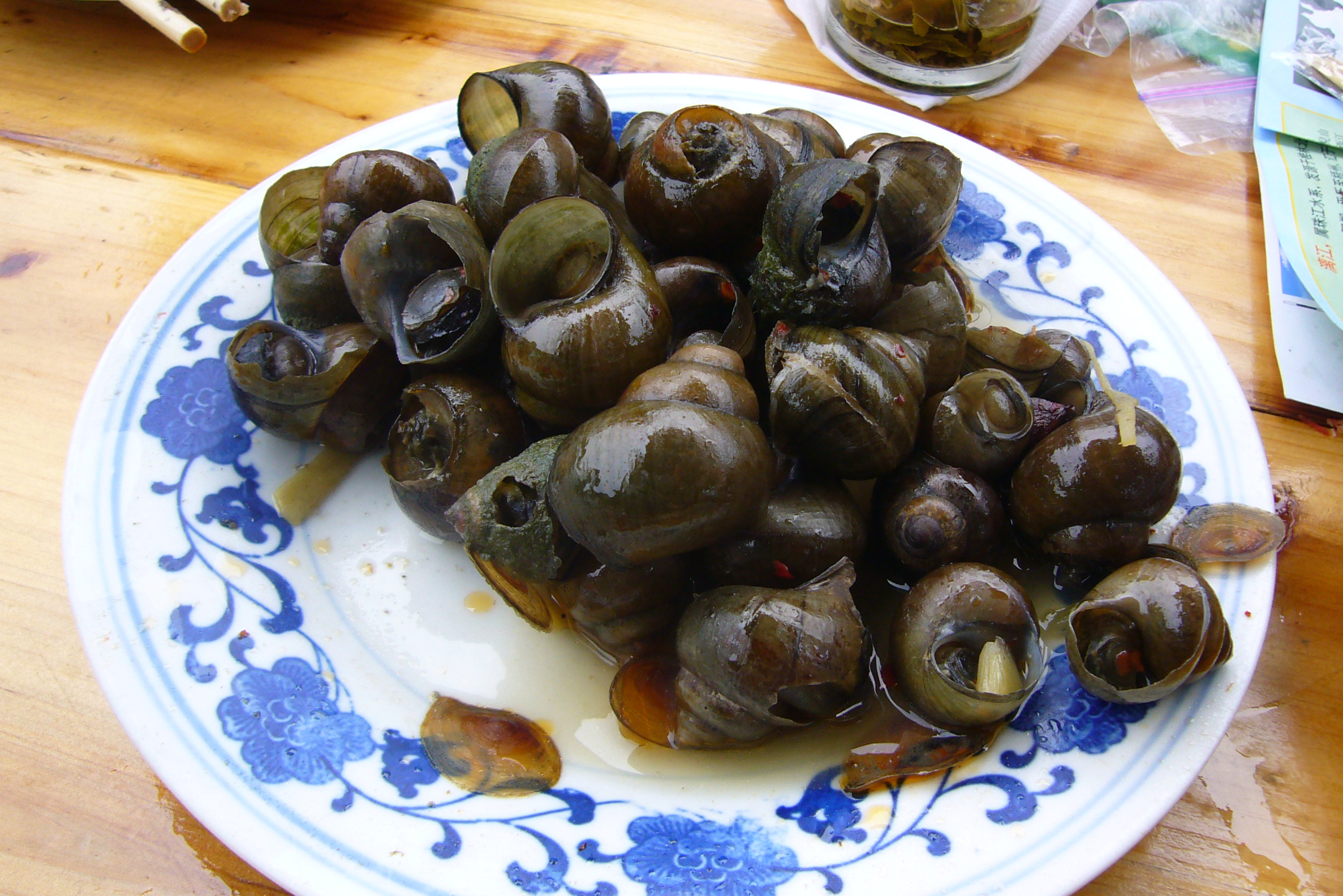 Cooked Sea snails